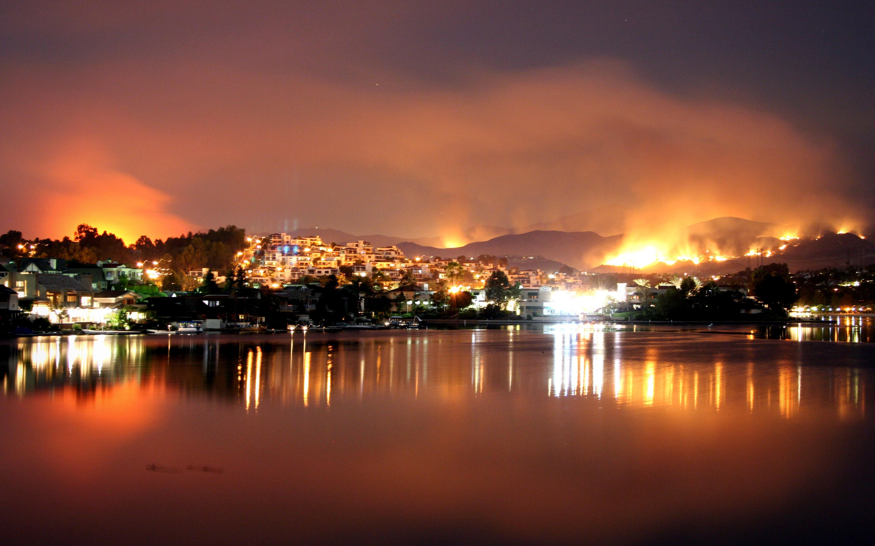 The Santiago Fire began shortly before 5:55pm on October 21, 2007 in the foothills north of Irvine and east of the city of Orange in Orange County. Fire officials have attributed the source of the fire to arson; the fire was reportedly started in three separate spots. View On Black